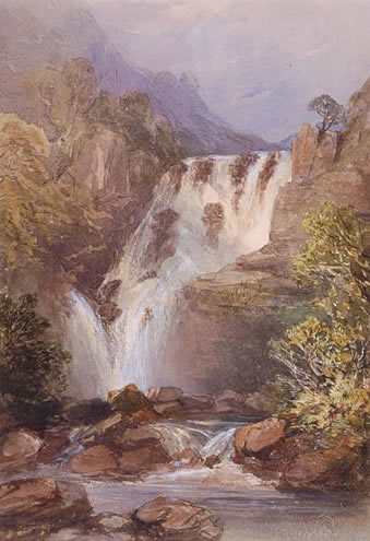 Torc Waterfall, by Mary Herbert, Muckross House Album, 1860